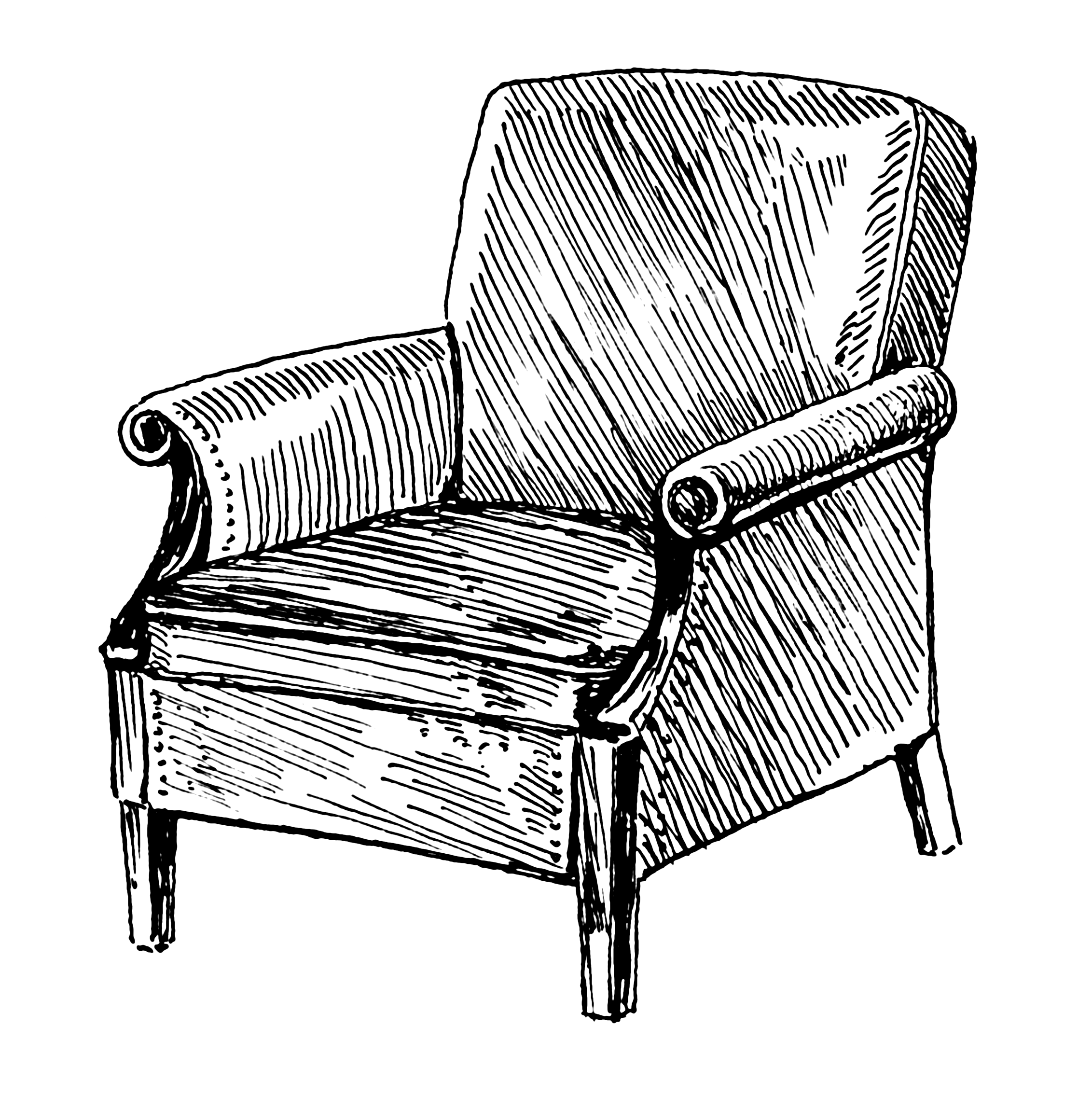 Line art drawing of an armchair